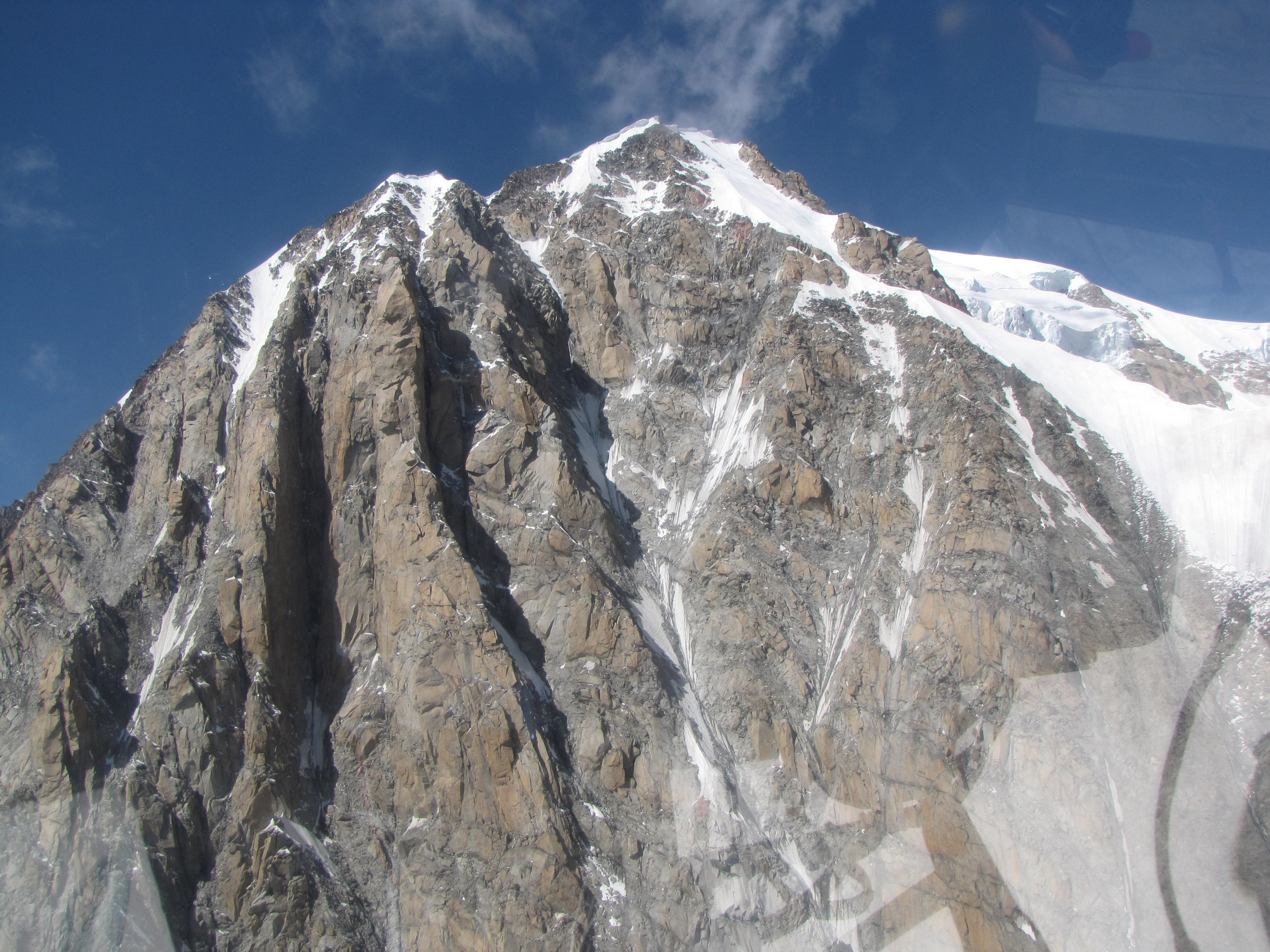 Freney pillars view from helicopter